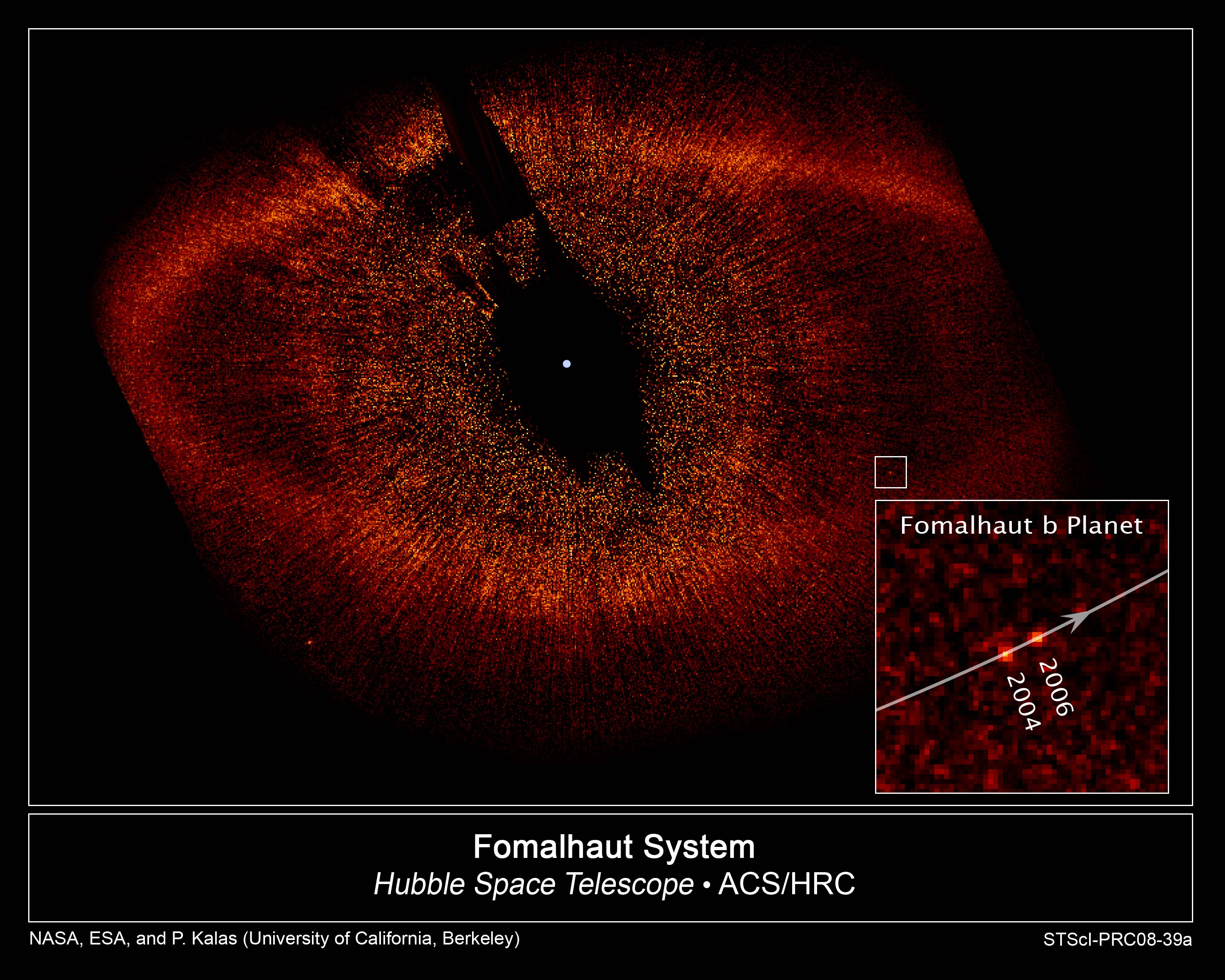 This image, taken with the Advanced Camera for Surveys aboard NASA's Hubble Space Telescope, shows the newly discovered planet, Fomalhaut b, orbiting its parent star, Fomalhaut. The small white box at lower right pinpoints the planet's location. Fomalhaut b has carved a path along the inner edge of a vast, dusty debris ring encircling Fomalhaut that is 21.5 billion miles across. Fomalhaut b lies 1.8 billion miles inside the ring's inner edge and orbits 10.7 billion miles from its star. The inset at bottom right is a composite image showing the planet's position during Hubble observations taken in 2004 and 2006. Astronomers have calculated that Fomalhaut b completes an orbit around its parent star every 872 years. The white dot in the center of the image marks the star's location. The region around Fomalhaut's location is black because astronomers used the Advanced Camera's coronagraph to block out the star's bright glare so that the dim planet could be seen. Fomalhaut b is 1 billion times fainter than its star. The radial streaks are scattered starlight. The red dot at lower left is a background star. The Fomalhaut system is 25 light-years away in the constellation Piscis Australis. This false-color image was taken in October 2004 and July 2006.